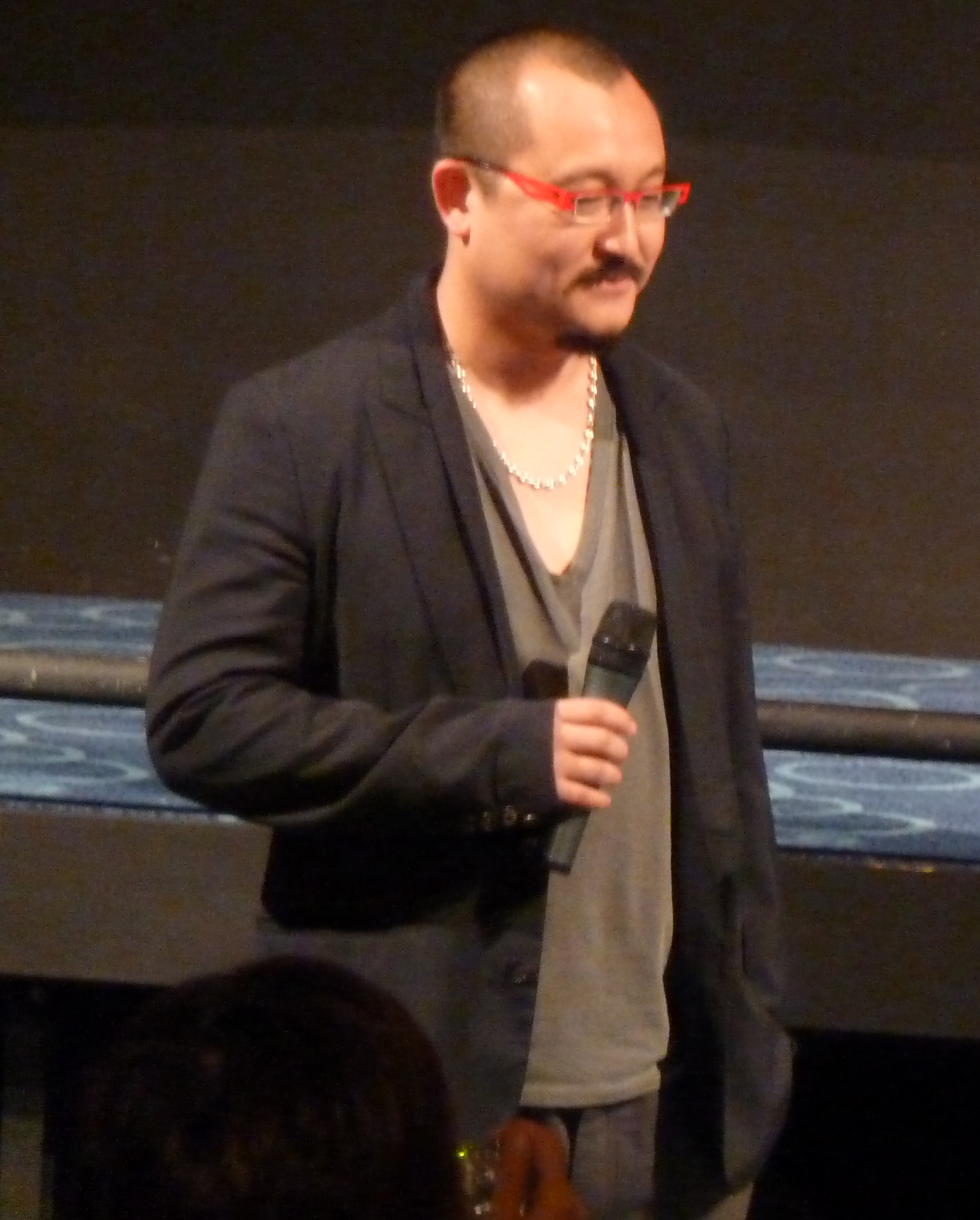 Wuershan at the 2010 Hong Kong Asian Film Festival